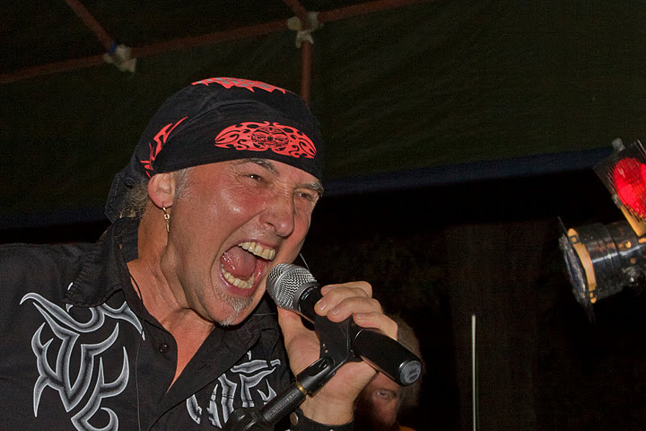 Mr. Basary alias Babári József a Hungarian Singer